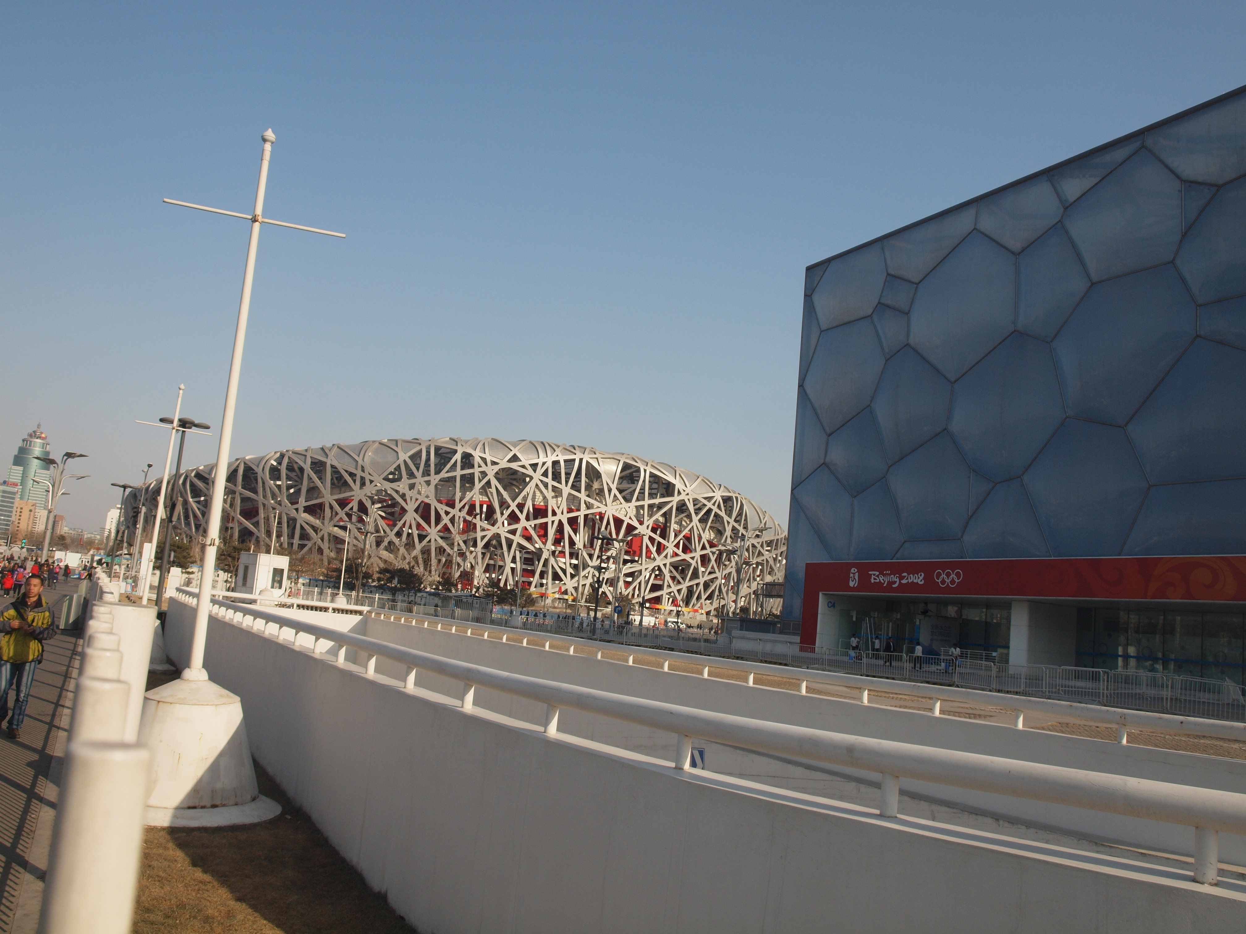 Birds nest and Water cube 2012